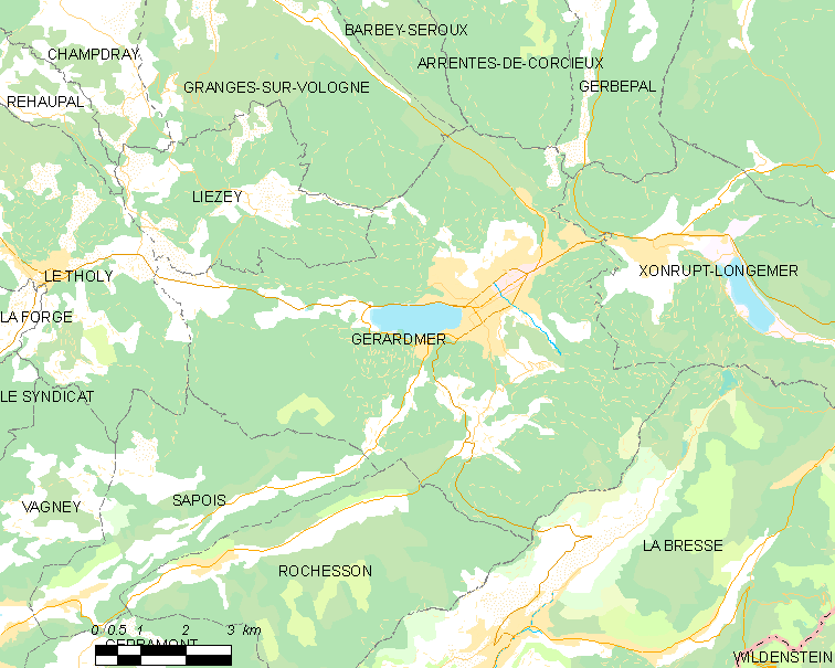 Map of French municipality Gérardmer